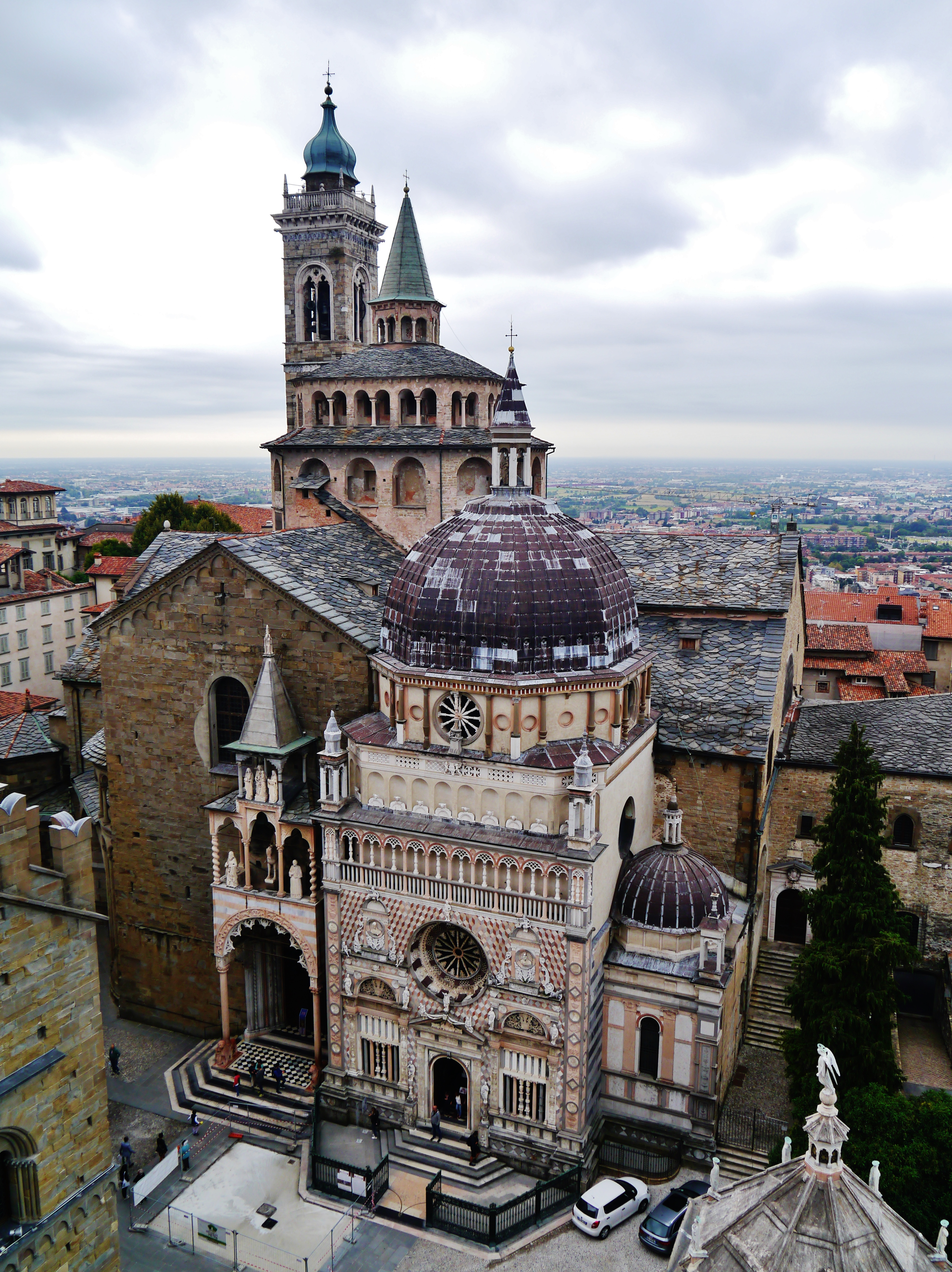 View from the Campanone/Civic Tower to the Basilica of St. Mary the Great & the Colleoni Chapel, Bergamo, Province of Bergamo, Region of Lombardia, Italy